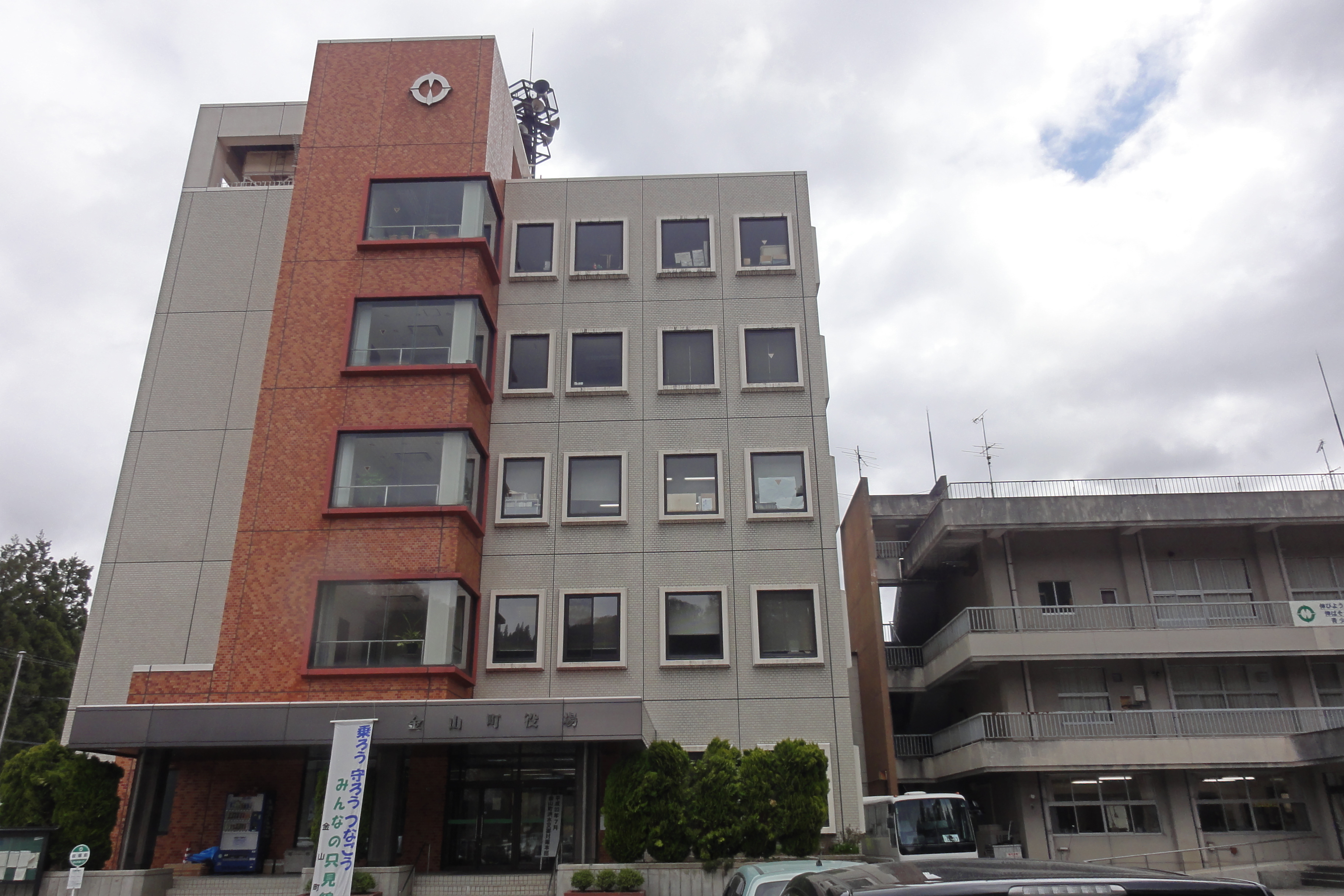 Kaneyama town office,Fukushima prefecture,Japan